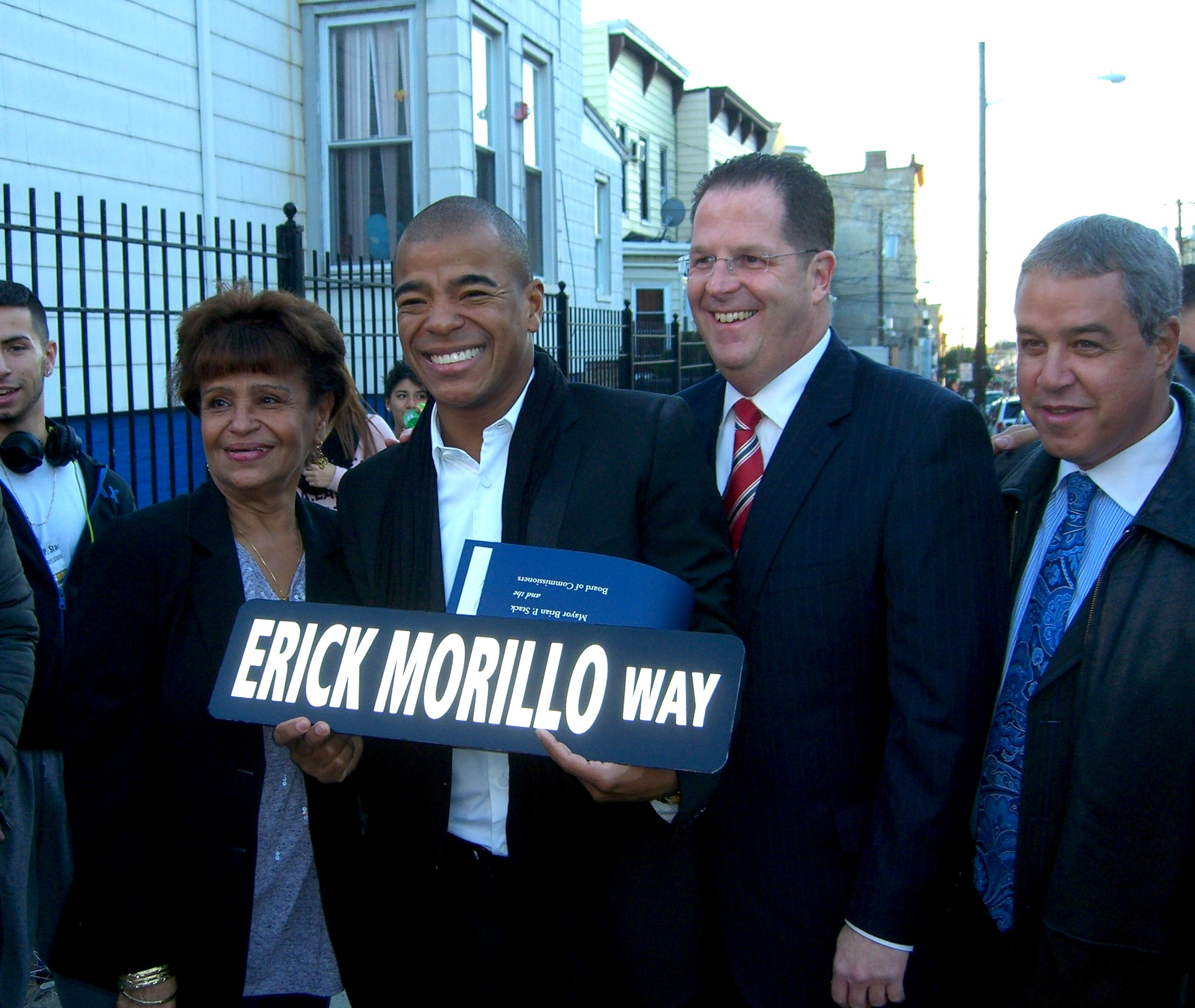 DJ and music producer Erick Morillo at an October 12, 2012 ceremony in Union City, New Jersey, in which the portion of Bergenline Avenue between 14th Street and 15th Street was named “Erick Morillo Way” in his honor. In the photo, Morillo and his mother pose with Union City Mayor Brian P. Stack (in the red tie) and Commissioner of Public Affairs Lucio P. Fernandez, holding a replica of the street marker that has just been unveiled. This photo was created by Luigi Novi. It is not in the public domain, and use of this file outside of the licensing terms is a copyright violation.